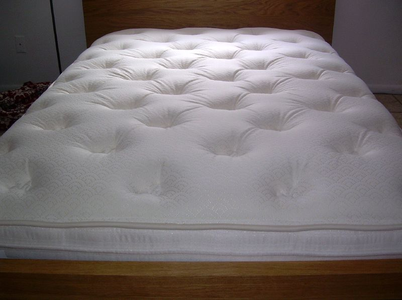 mattress